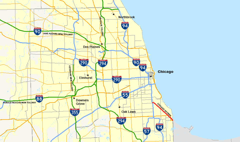 map of Chicago Skyway within the city of Chicago, Illinois, United States.